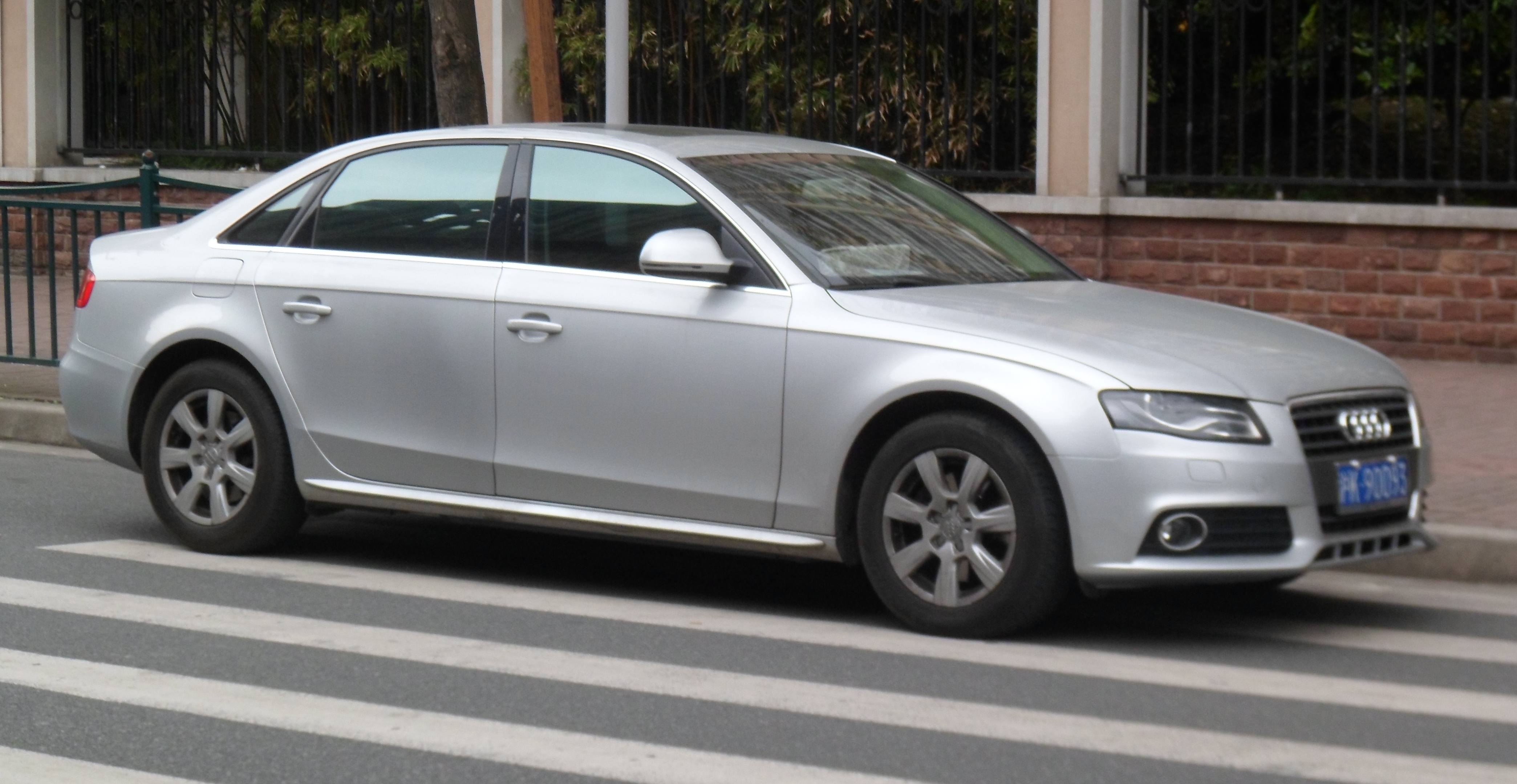 Audi A4L B8 photographed in Shanghai, China.